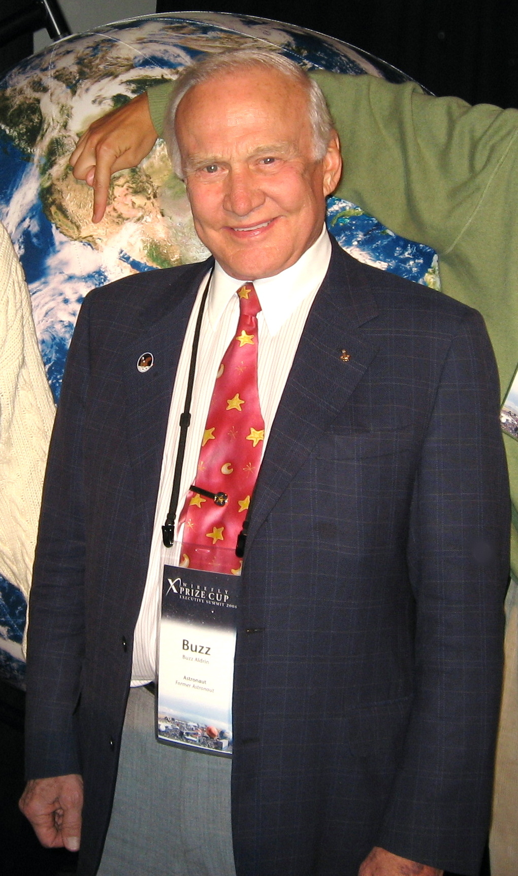 My Dad and I just had a magical dinner with Buzz Aldrin. He is just remarkable, and full of ideas (e.g., 60-person orbital rocket rides). The XPrize Executive Summit is a prelude to the XPrizeCup tomorrow. Both are in Las Cruces, New Mexico, which I tried to mark on the large globe. And, no, he was not aware of Neil Armstrong’s concerns about Apollo 11.